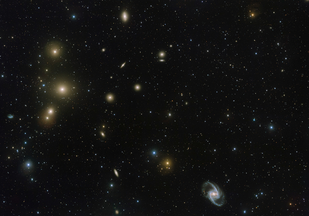 The Fornax Galaxy Cluster is one of the closest of such groupings beyond our Local Group of galaxies. This new VLT Survey Telescope image shows the central part of the cluster in great detail. At the lower-right is the elegant barred-spiral galaxy NGC 1365 and to the left the big elliptical NGC 1399.